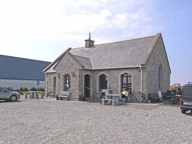 Eachleim Heritage Centre, near to Aghleam and Clogher, Mayo, Ireland. Opened in 1997 by President Mary Robinson, the Heritage Centre at Eachleim/Aughleam houses a fascinating collection of artifacts from the past and is a centre of Gaelic culture.